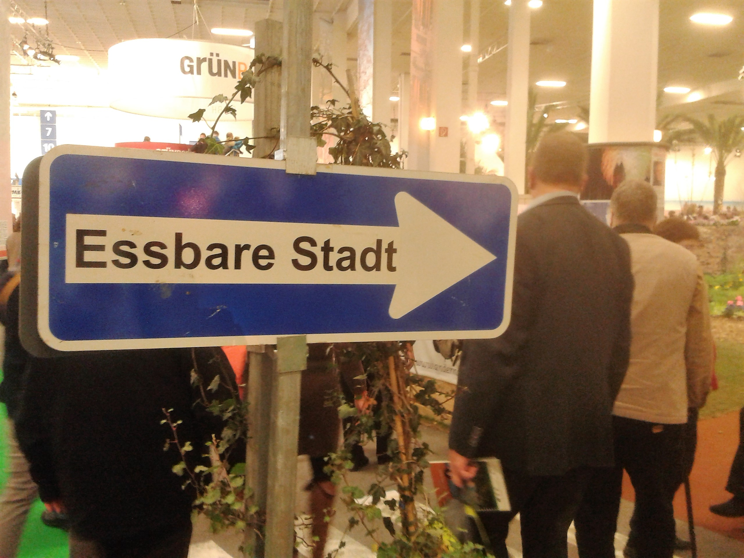 Sign Edible City at Internationale Gruene Woche in Berlin 2014